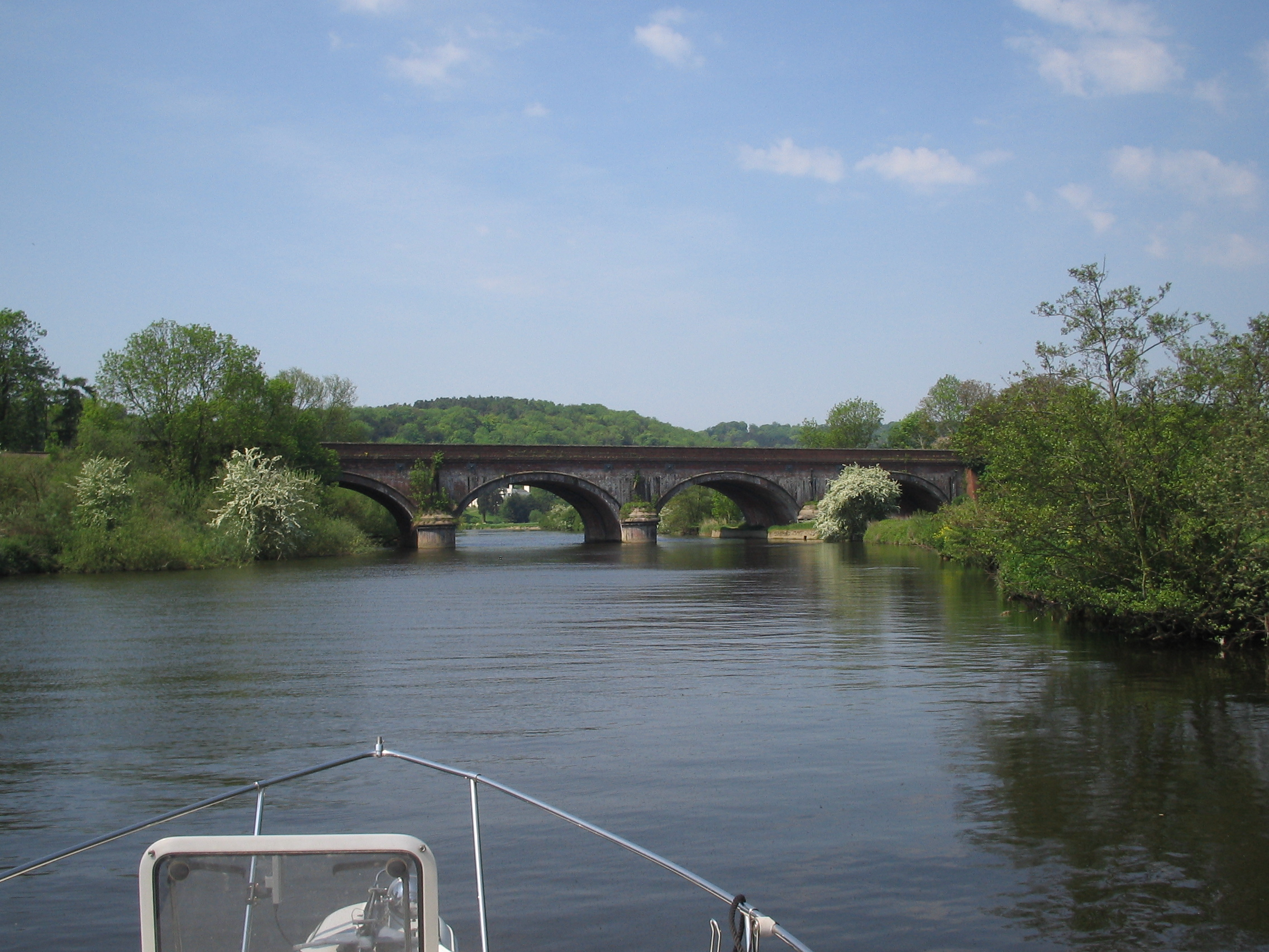 Gatehampton Railway Bridge carrying the Great Western railway across the River Thames. Viewed looking upstream.